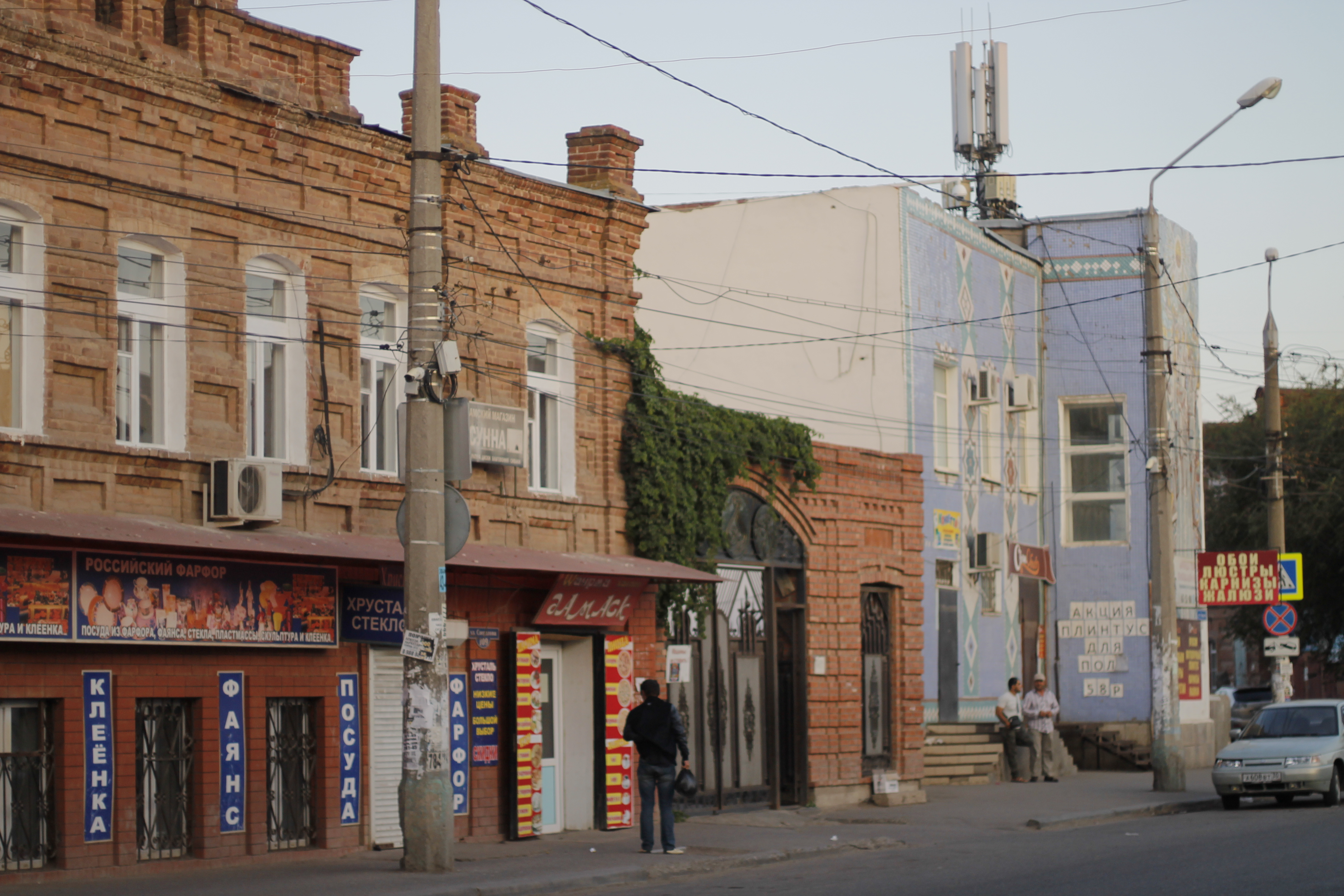 Bolshie Isady market quarter in Astrakhan